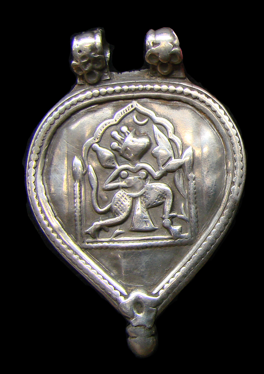 Amulet from Rajasthan,silver,early 20th century,representing Hanuman.